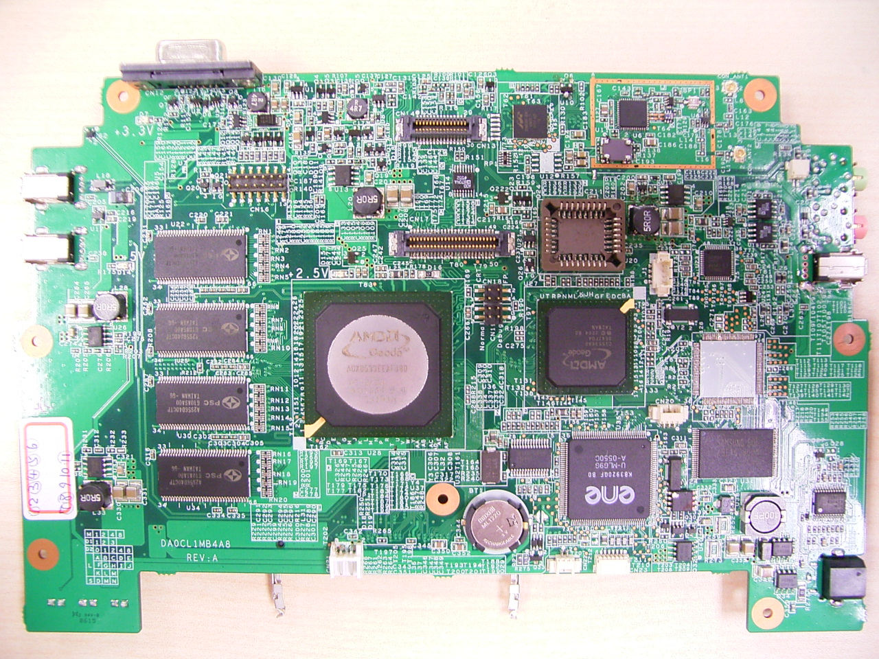 OLPC XO-1 motherboard